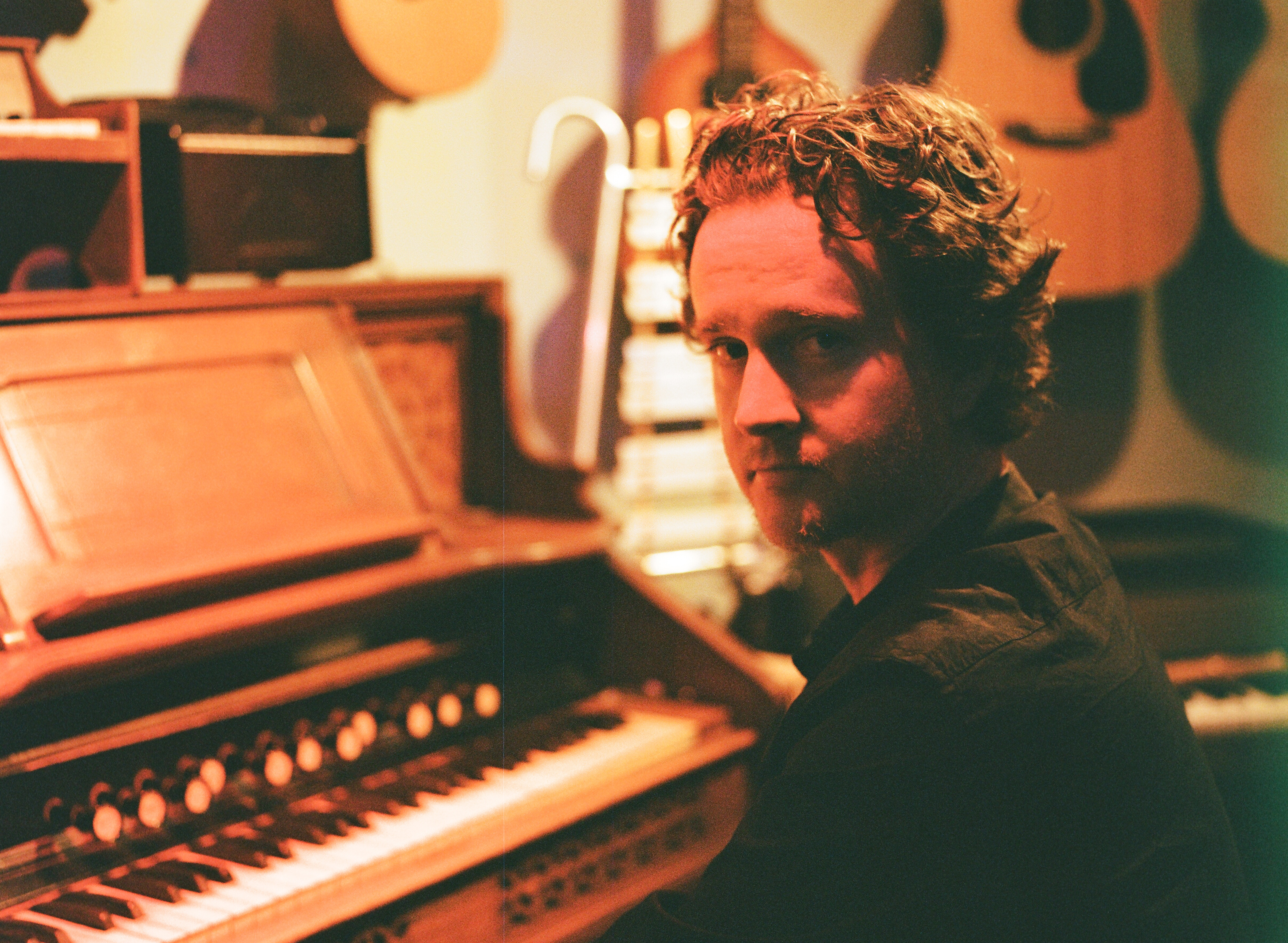 Producer Greg Wells at Rocket Carousel Studio, Los Angeles 2011